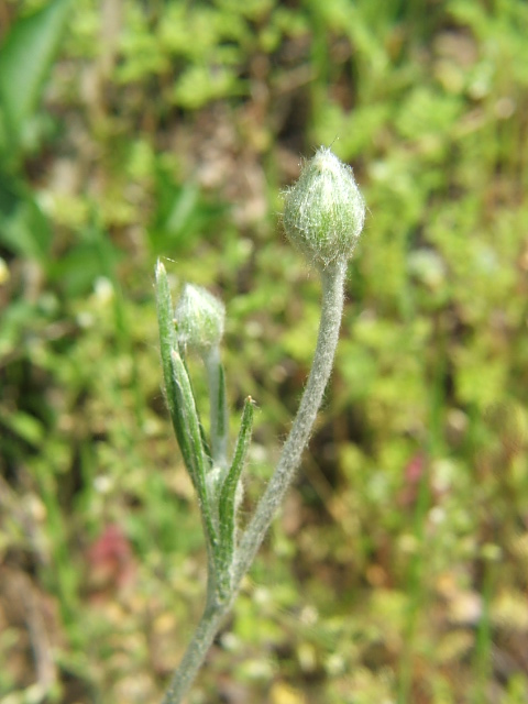 Buds of Ranunculus illyricus